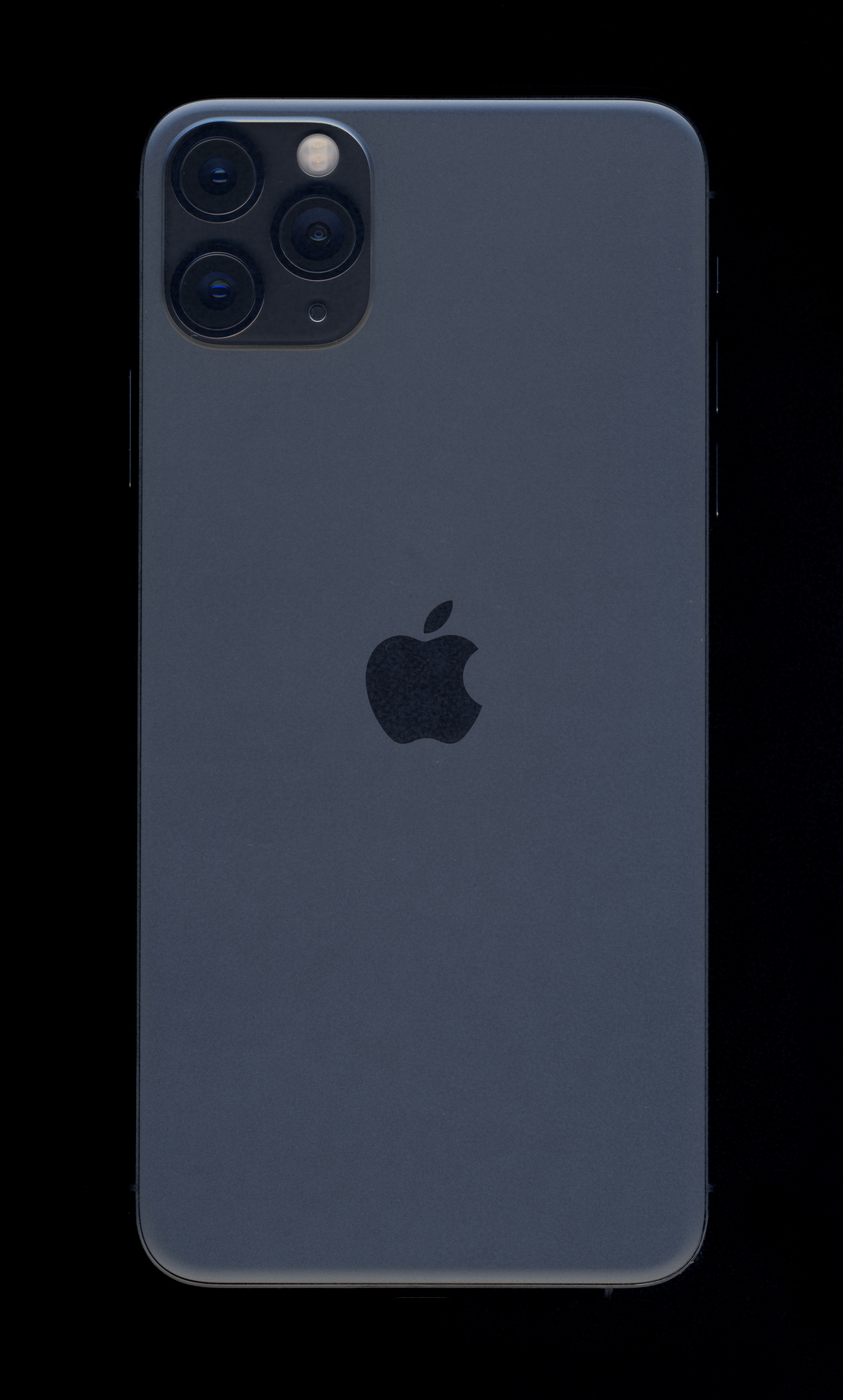 The iPhone 11 Pro Max is a 2019 smartphone model by Apple Inc.. It is notable for having three cameras: a normal lens, a telephoto lens, and a wide-angle lens. This picture was scanned with an Epson Perfection 4490 image scanner.